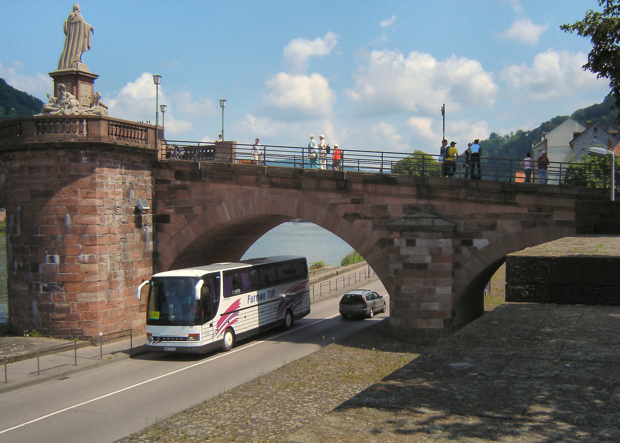 Vehicles passing under the Old Bridge (Alte Brücke) of Heidelberg, Germany on the Federal Road B 37